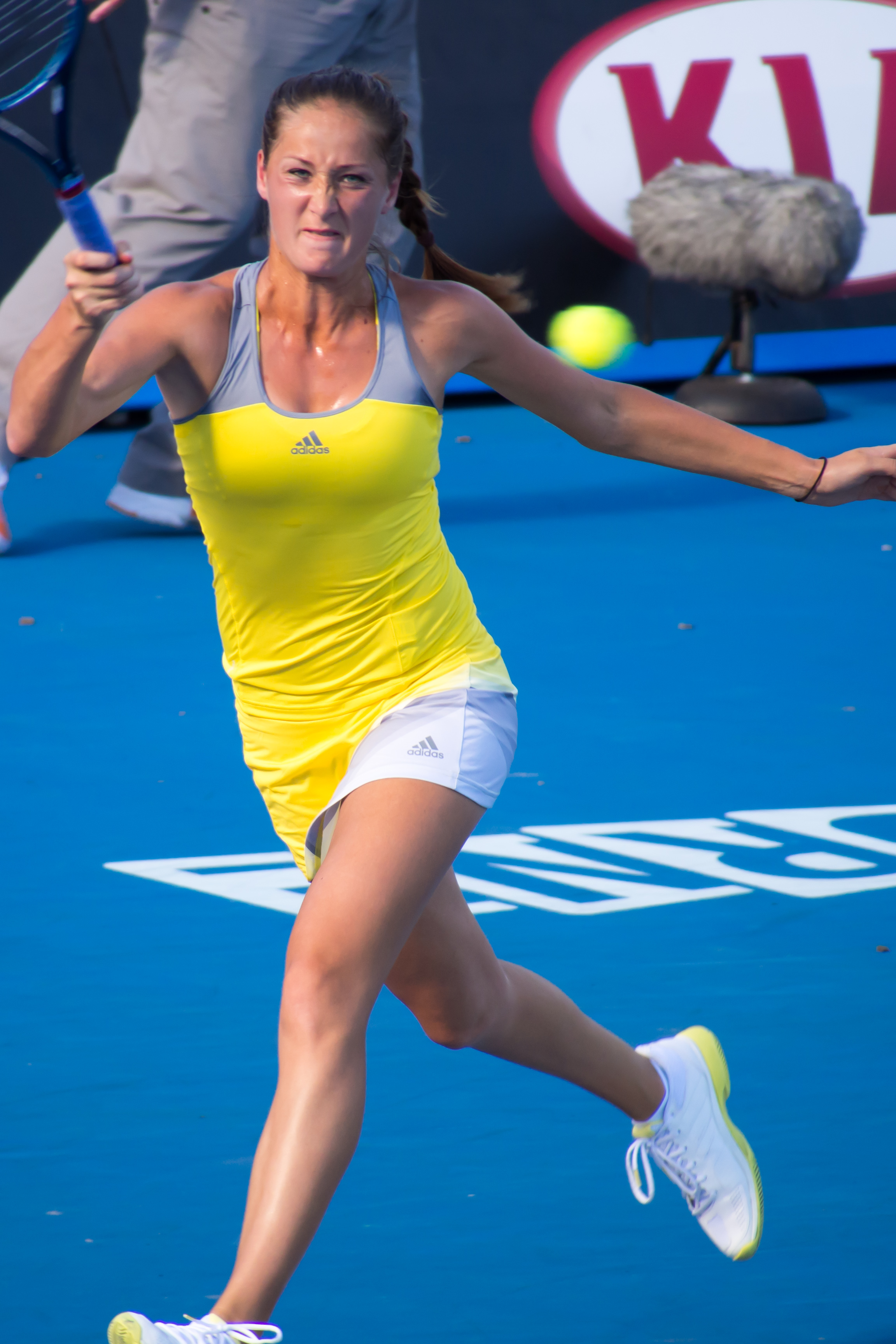 Bojana Jovanovski during her 2nd round straight-sets win to Lucie Safarova at the 2013 Australian Open.